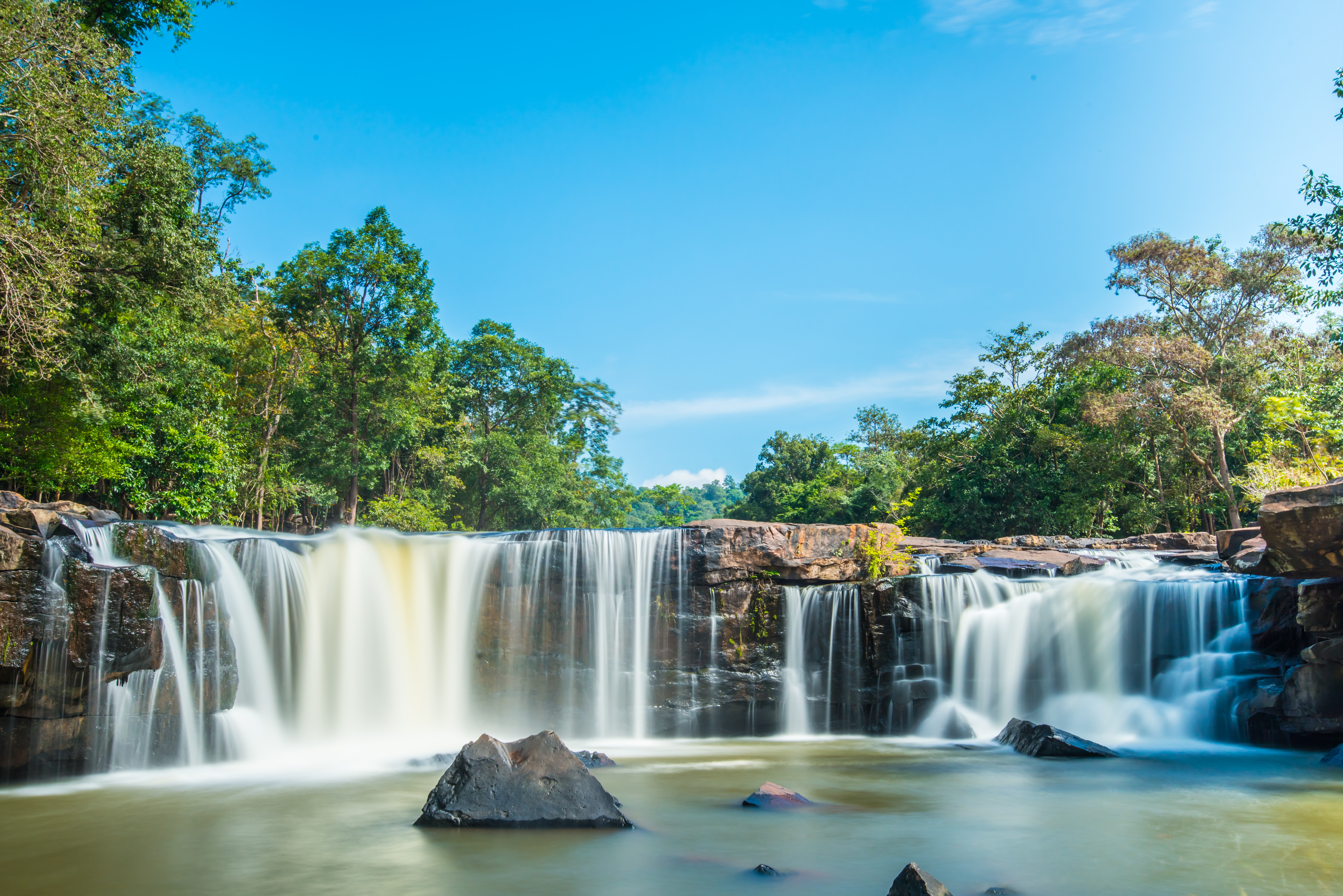 Water falls in the park of Thailand.